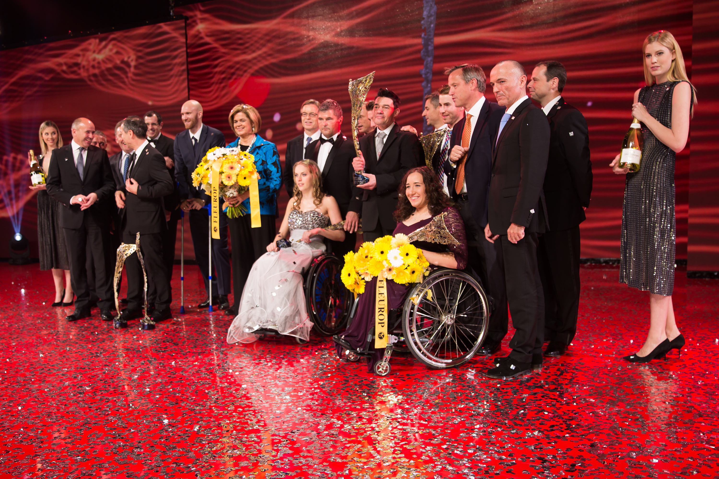 Marcel Hirscher, Anna Fenninger could not attend, Robert Almer representing the Austria national football team, Stefan Kraft, Patrick Mayrhofer, Claudia Lösch, Jochen Hugmann, Marcel Koller and Kira Grünberg - the Austrian Sportspersonalities of the Year 2015 (Austria Center Vienna).